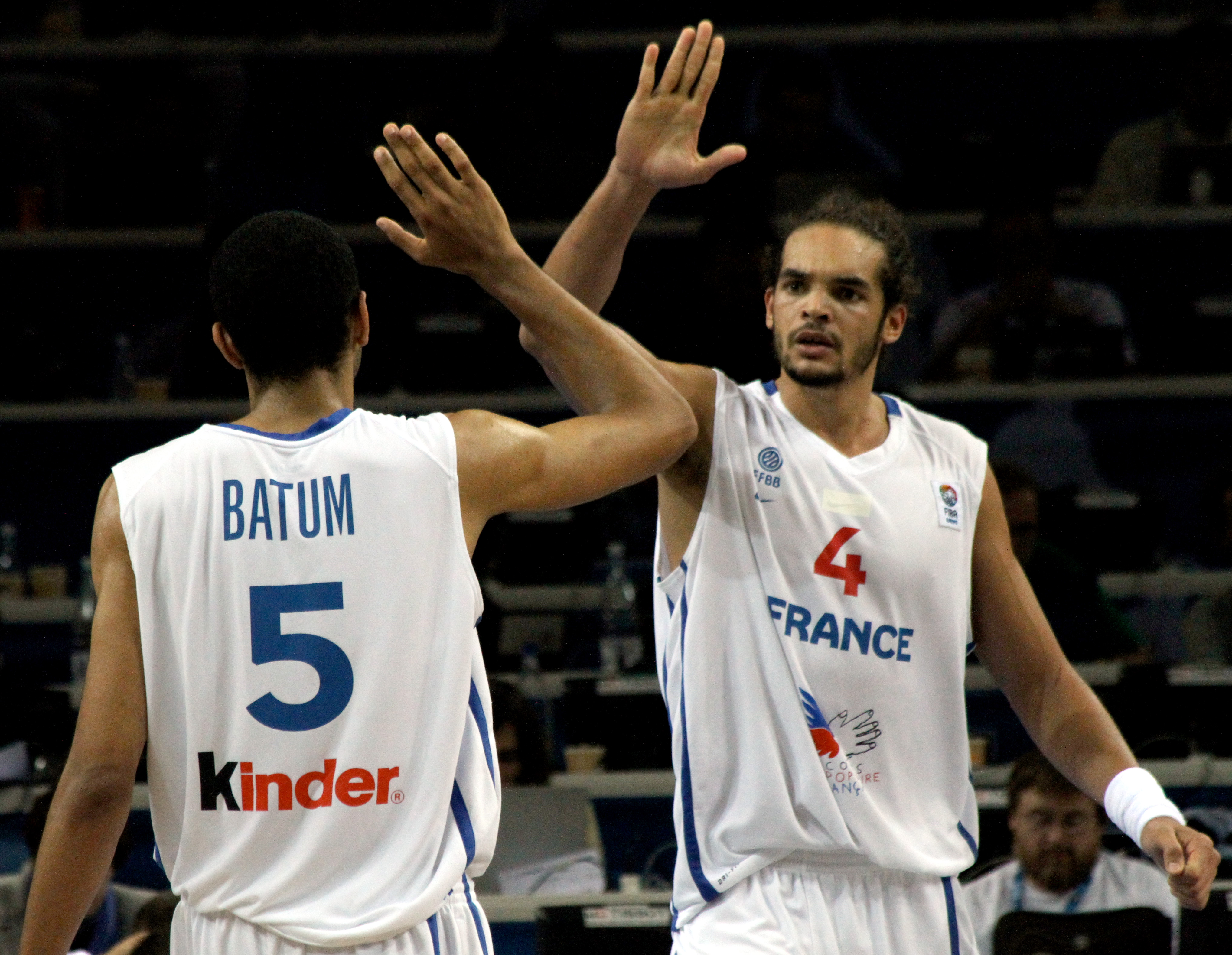 Joakim Noah and Nicolas Batum.